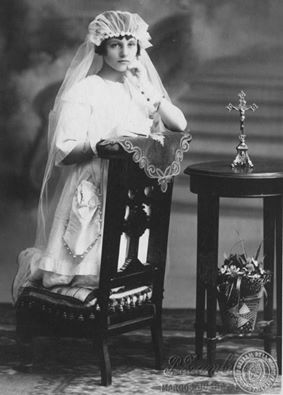 First Communion photo of an Argentine girl.